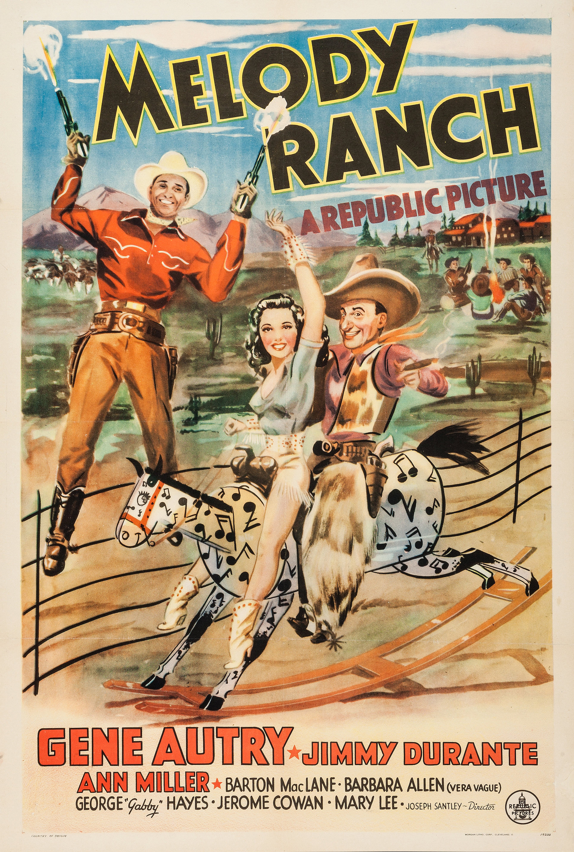 Theatrical release poster for the 1940 American film The Shop Around the Corner.